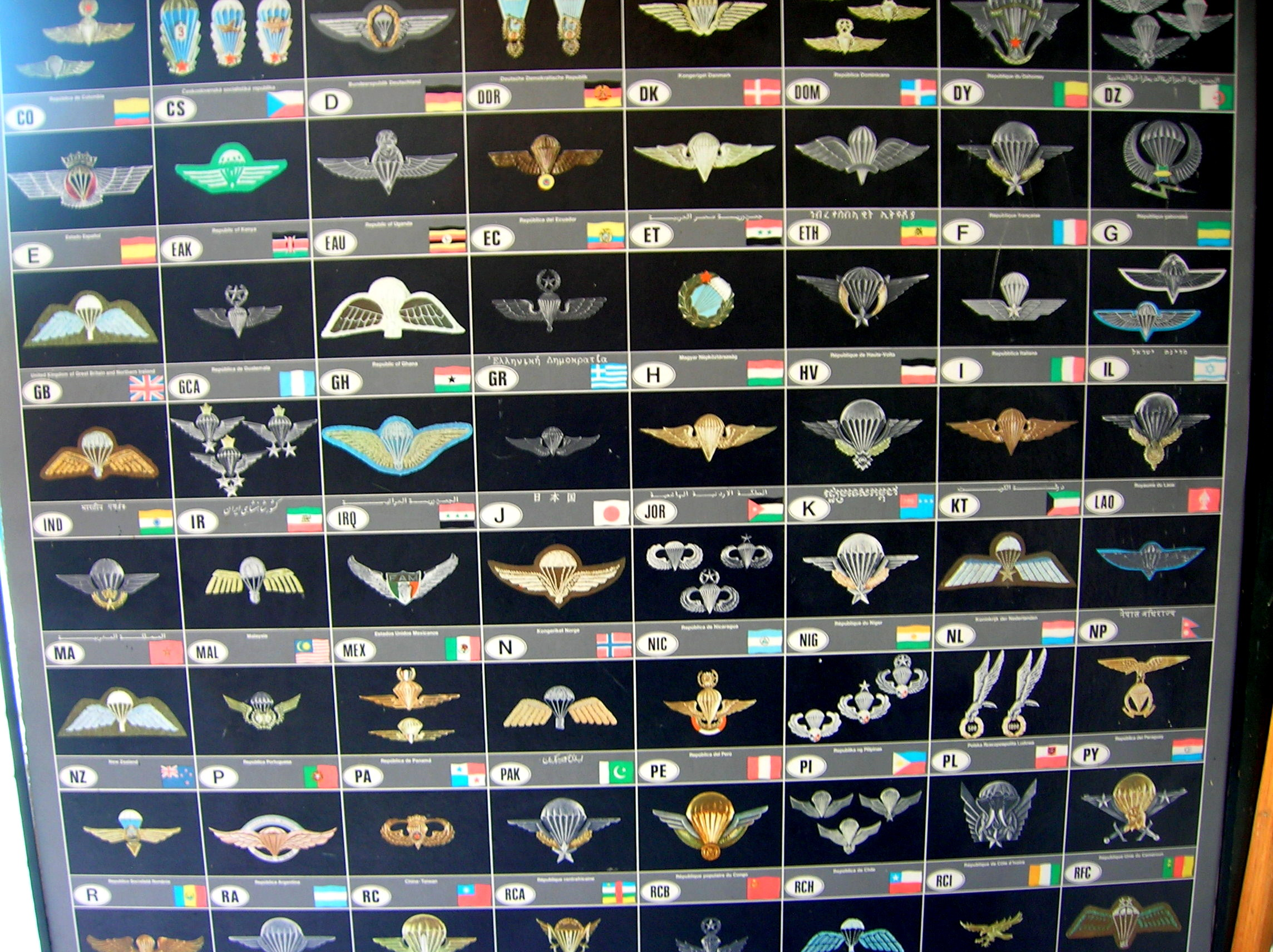 Worldwide skydiving military medals